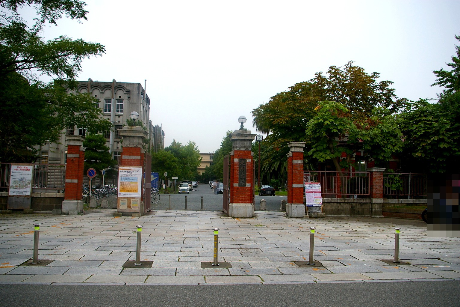 Main gate of Hakozaki campus, Kyushu University